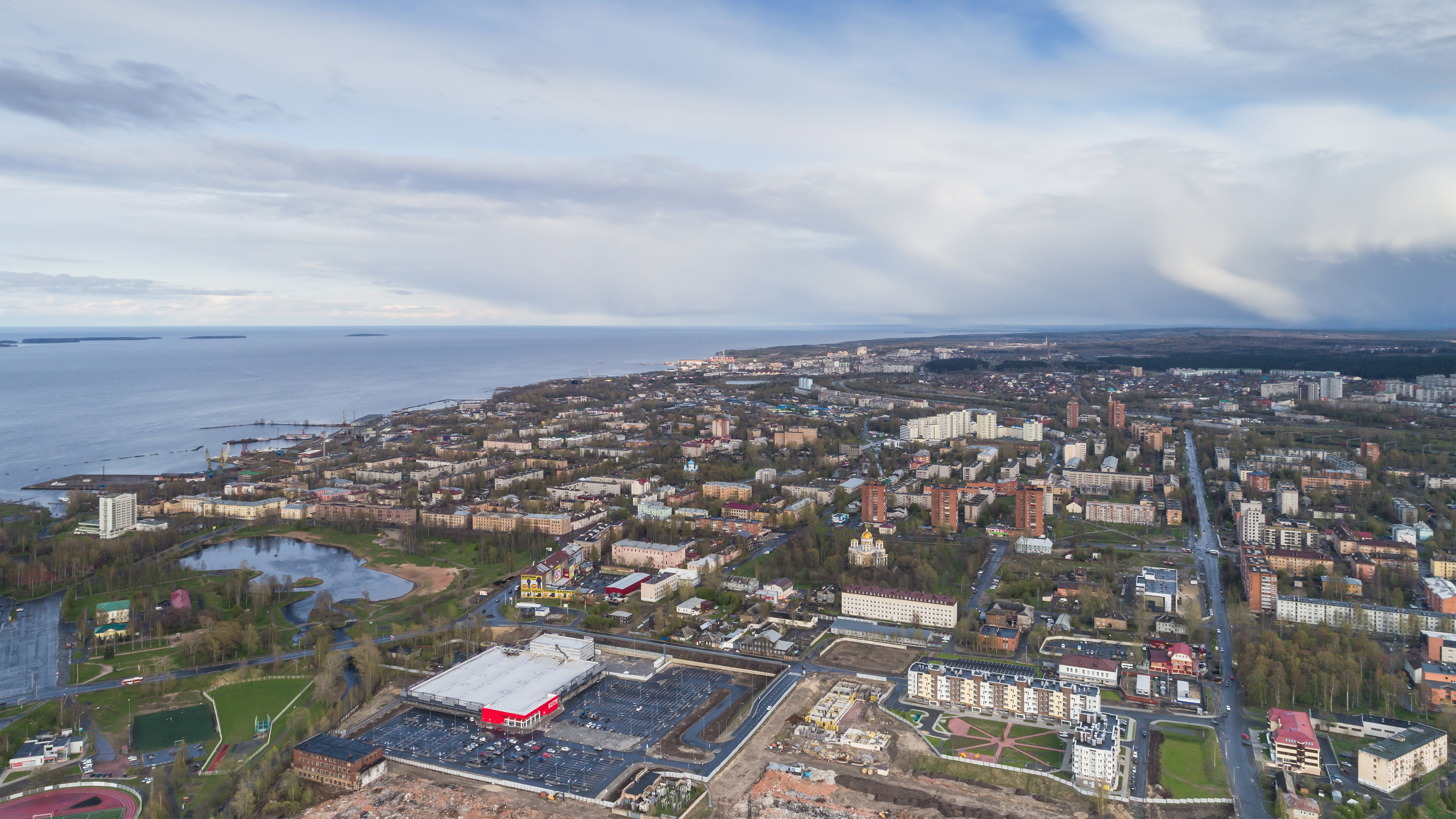 Aerial photo of Petrozavodsk, Republic of Karelia (Russia).